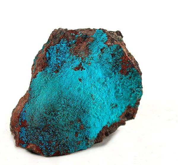 Lavendulan Locality: Meskani Mine (Meshkani Mine; Madan-e Meskani [Meskani mine sites]), Anarak District, Esfahan Province (Isfahan Province; Aspadana Province), Iran (Locality at ) A very beautiful plate of rare lavendulan from Iran, occuring as a microcrystalline crust on matrix. This was probably colelcted by Sorbonne expeditions in the early 1980s. 3.9 x 3.5 x 2.6 cm